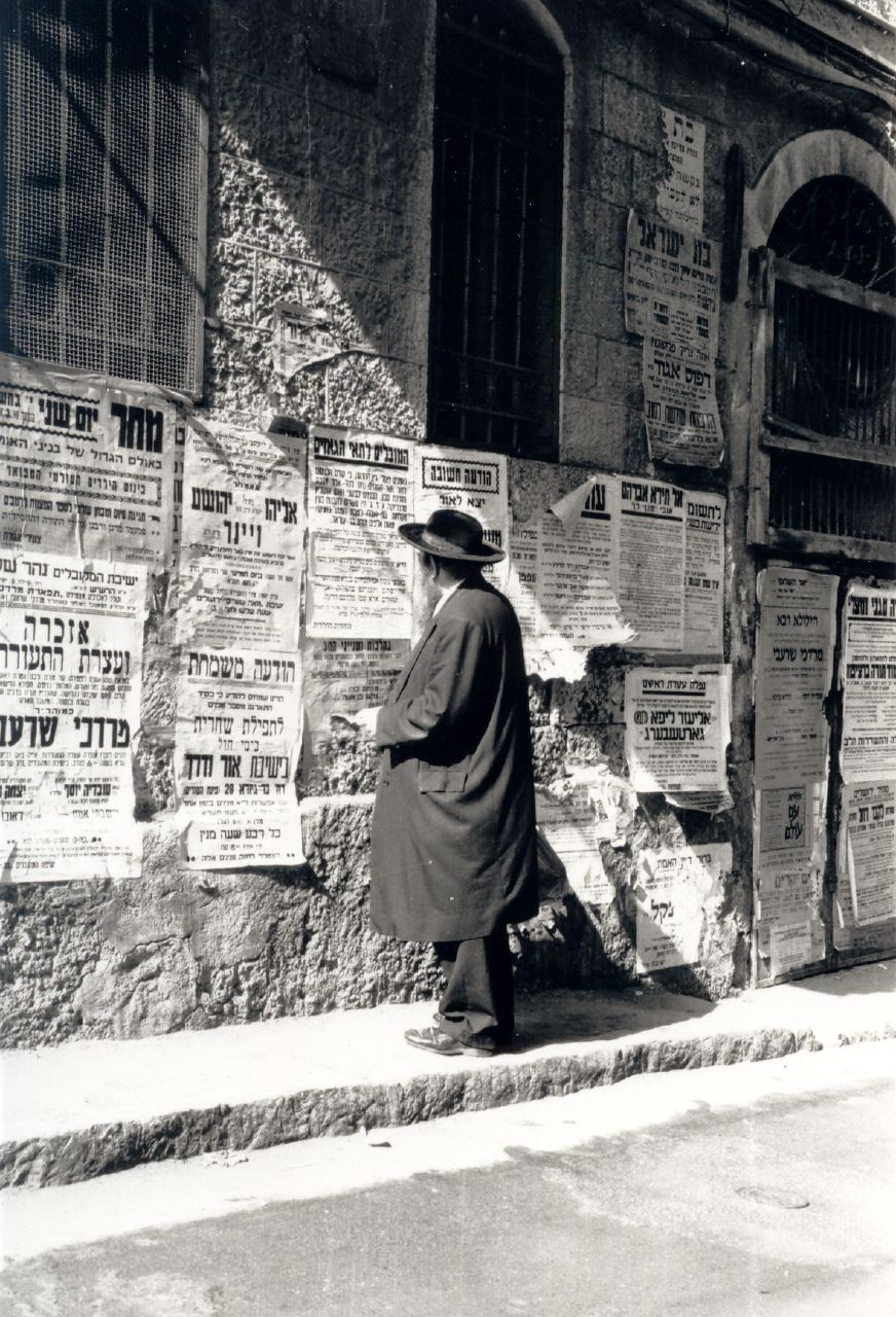 Mea Shearim during a Friday/Jewish-holiday evening is among the most athmospheric (timeless) places I've seen (Jewish ultra-othordox neighbourhood, Jerusalem)